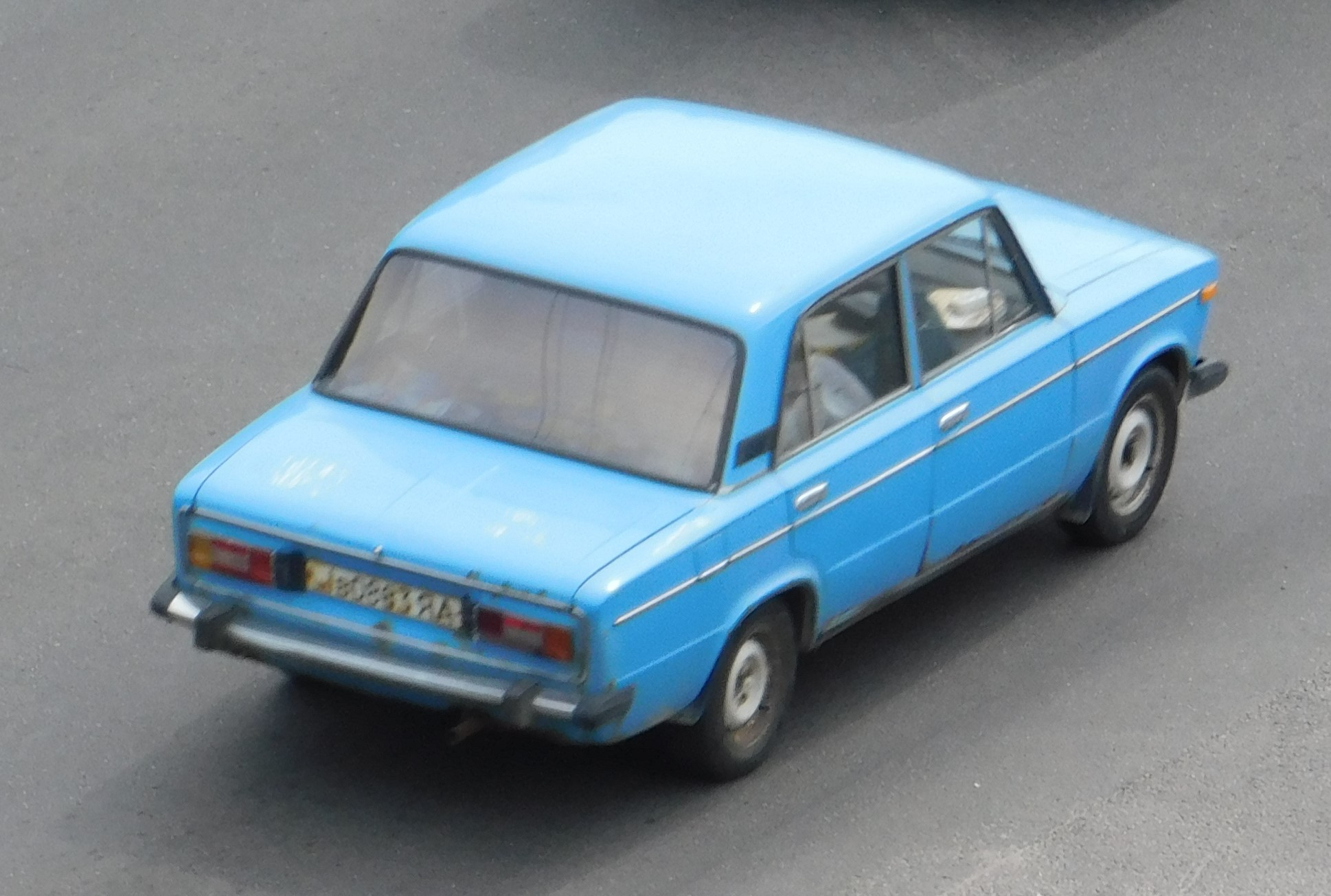 VAZ-2106 moving near waterfront in Dnipro, Ukraine.